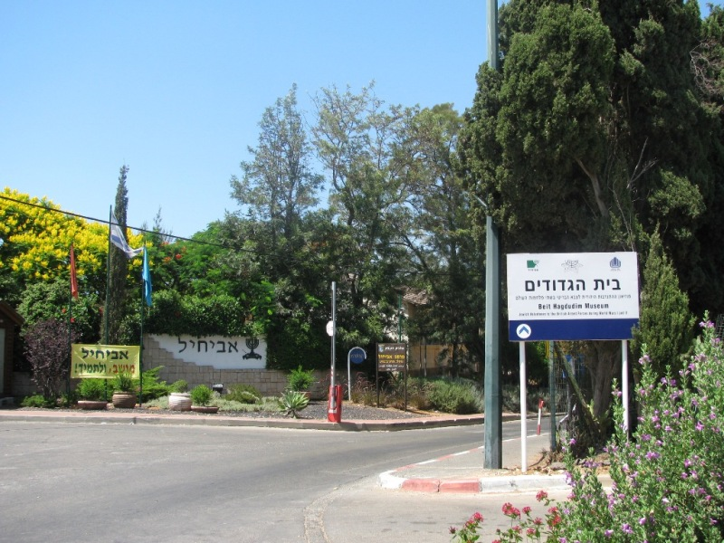 Moshav Avihayil, Settlements in Israel